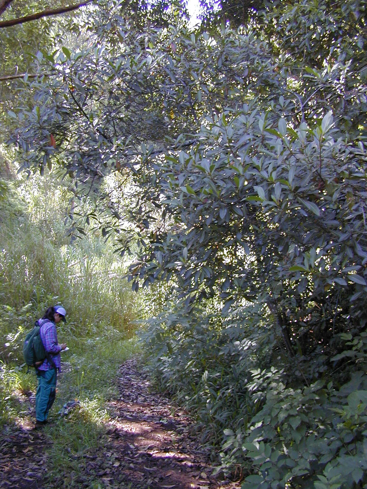 Cinchona calisaya (habit with Kim). Location: Maui, Makawao Forest Reserve